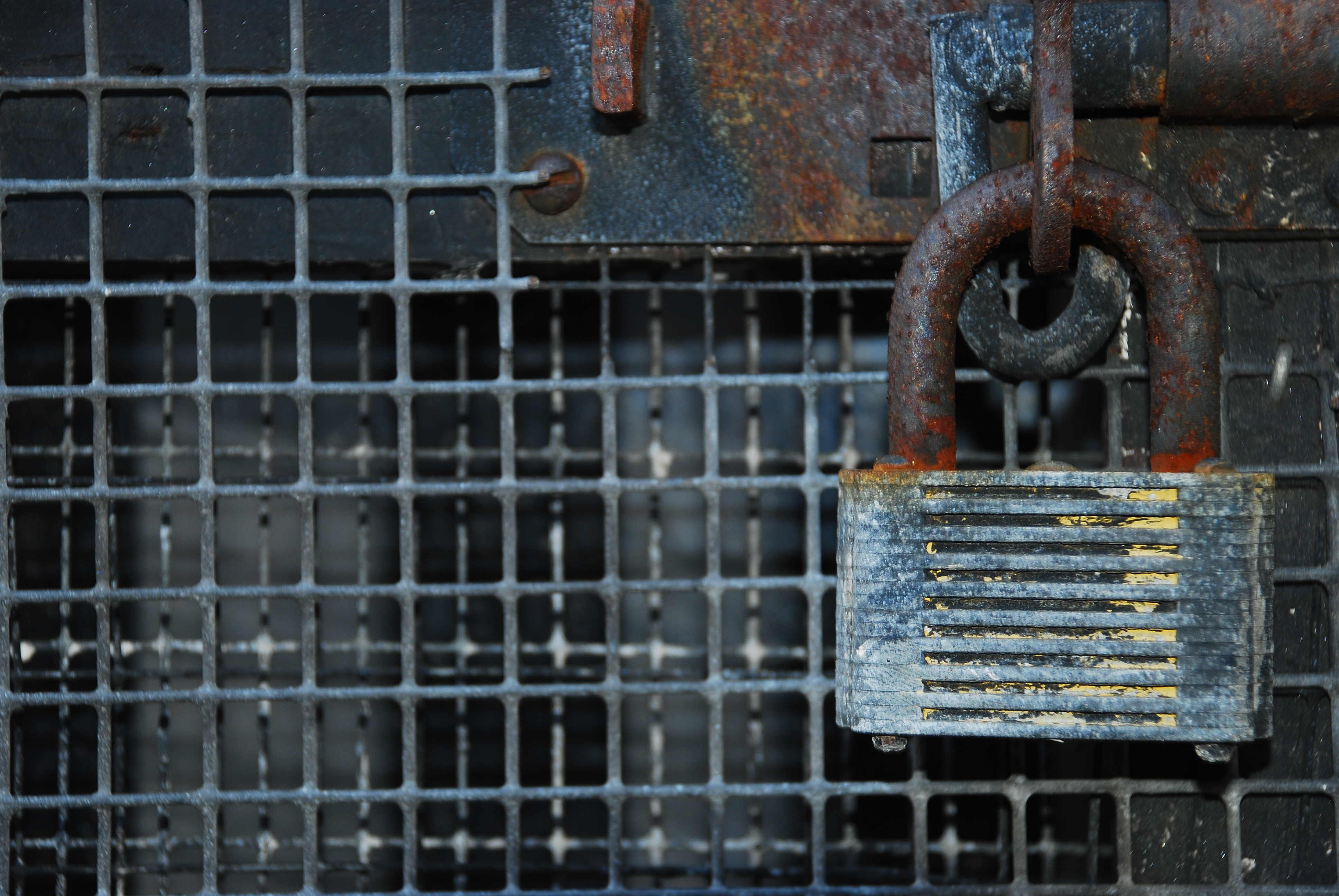 Rusty padlock on a door on Wapping Ln, Derry, Northern Ireland.